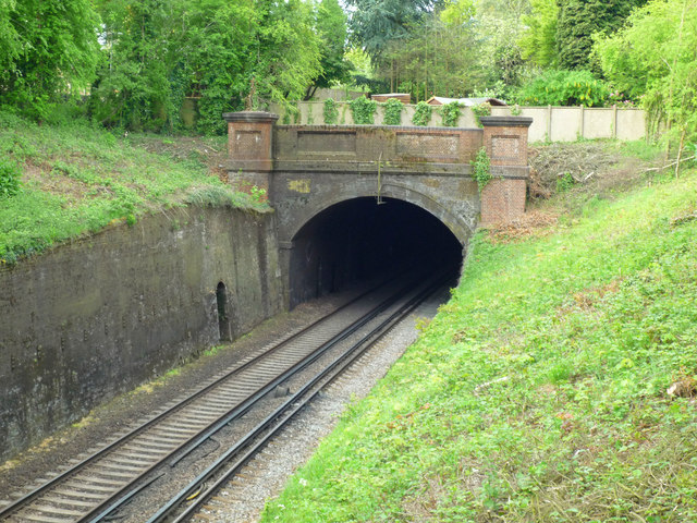 North portal of the 649 yard Redhill Tunnel. Dating from 1900, it was part of the so called Quarry Line built by the London Brighton and South Coast Railway, bypassing the original line through Merstham and Redhill owned by the South Eastern Railway. The Quarry Line now serves as the fast lines from London Bridge/Victoria to Gatwick Airport and Brighton.